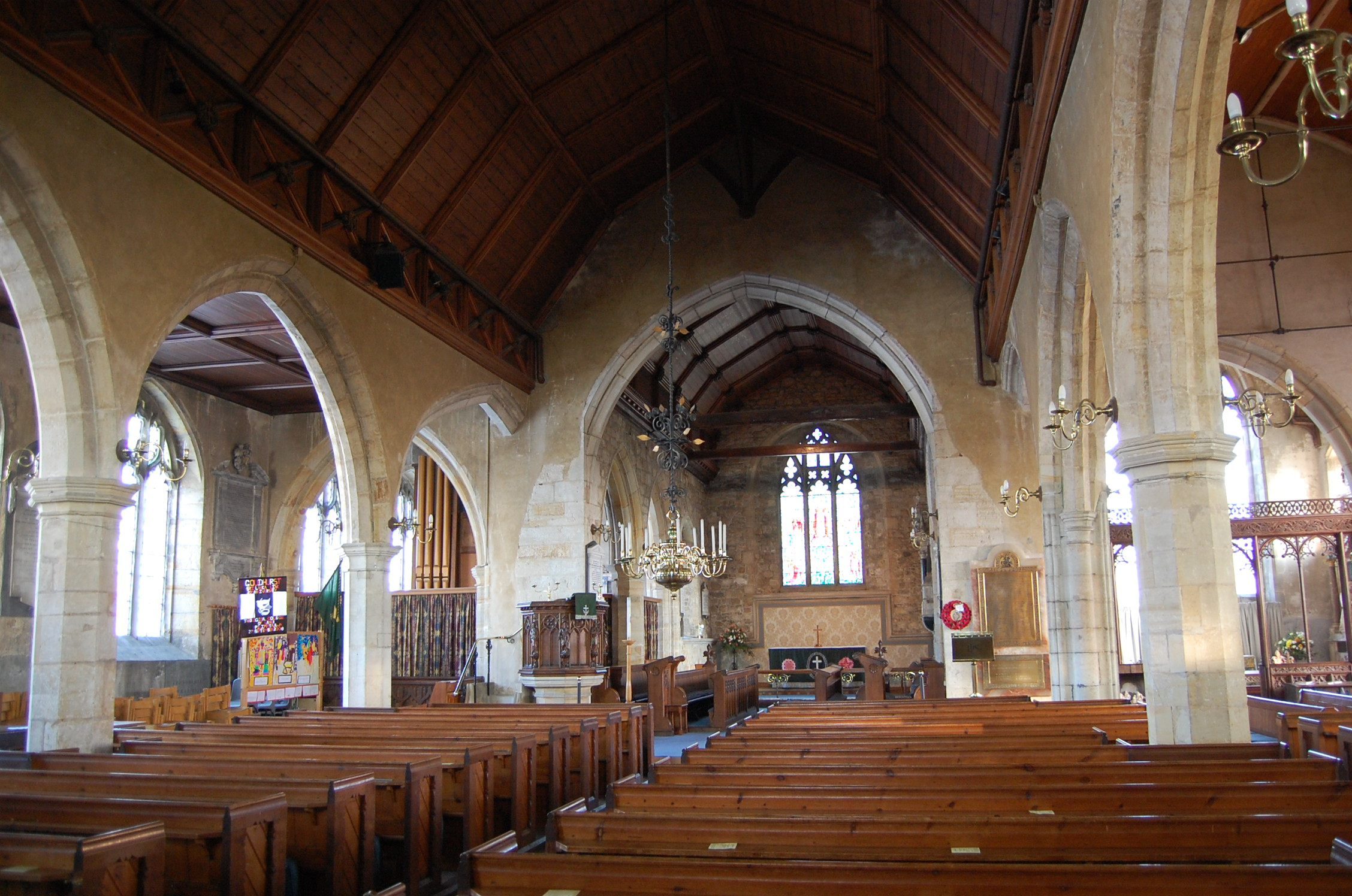 Dates from 12th Century and probably back to Saxon times. Much stained glass was destroyed by a bomb in World war II. The church contains a fine tomb to Sir Alexander Culpepper, plus brasses from the 15th Century.